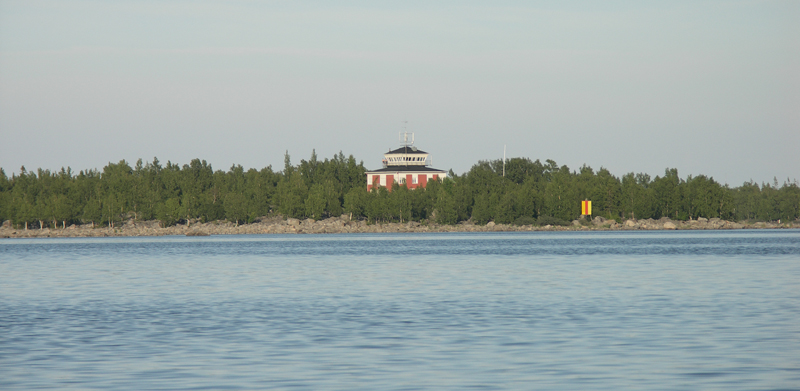 Kummelskär, Vörå-Maxmo, Finland